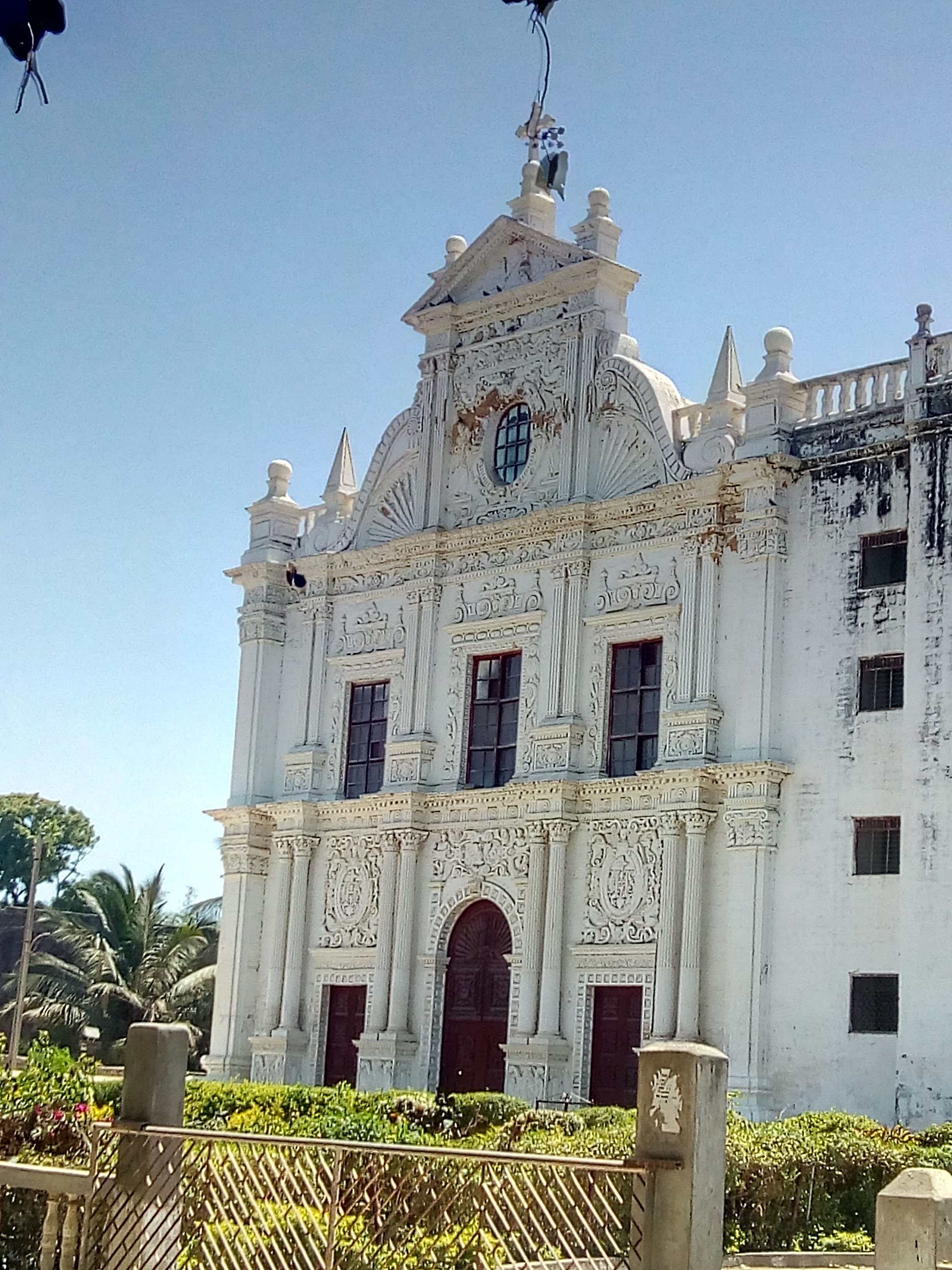 St. Paul’s Church